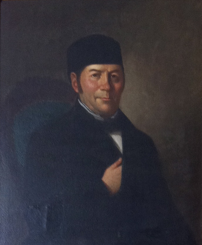 Portait of Emamuel (or Emmanuel) Lang (1800-1876). (Former weaving mill 'Usine Lang' at Waldighofen, Haut-Rhin department, France.